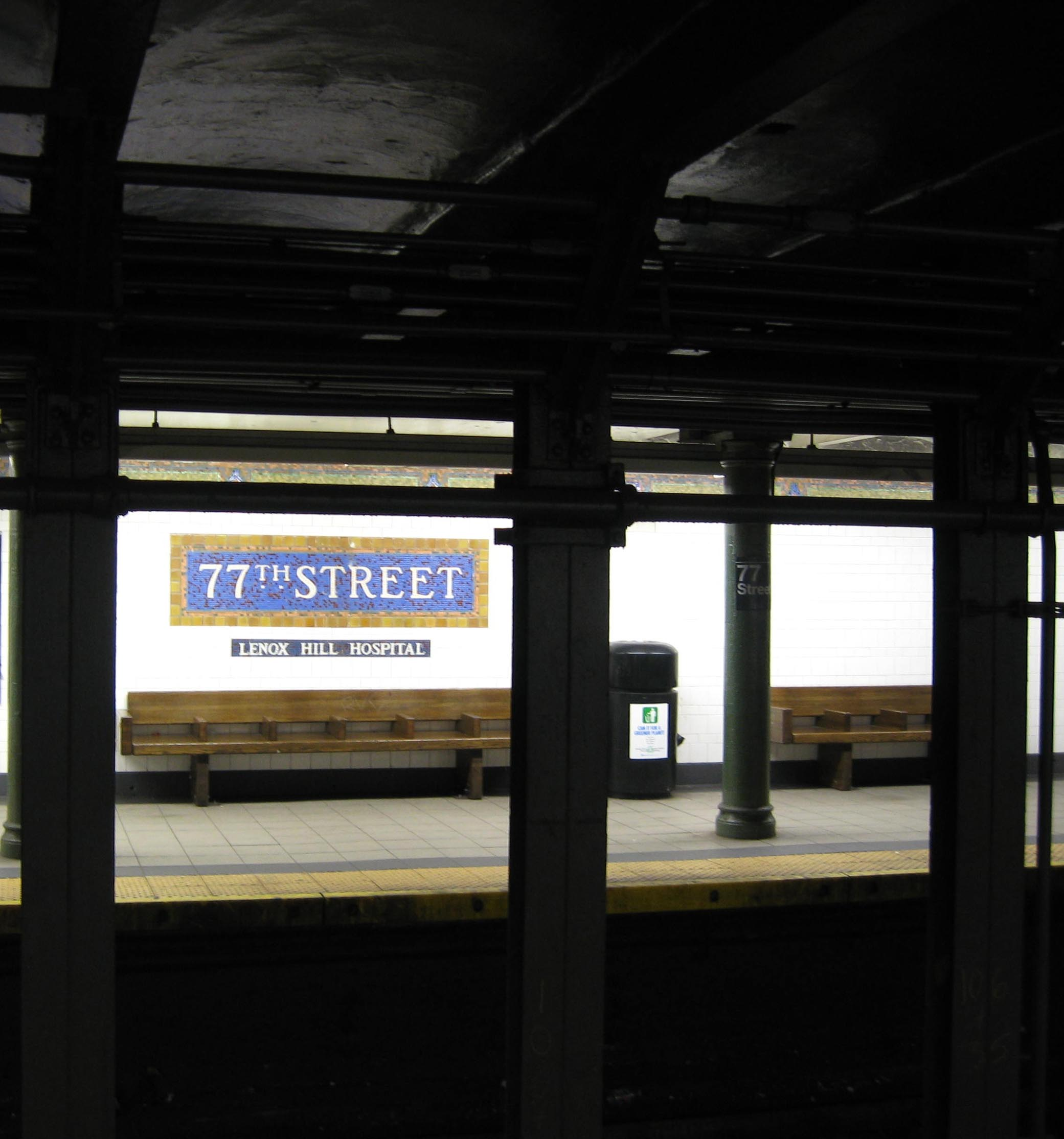 Looking northwest across tracks at downtown platform of 77th Street IRT station